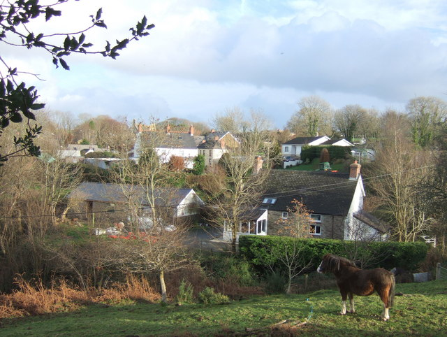 View over Eglwyswrw This is taken from the old castle mound looking east over the village which is built around an elevation of the land.